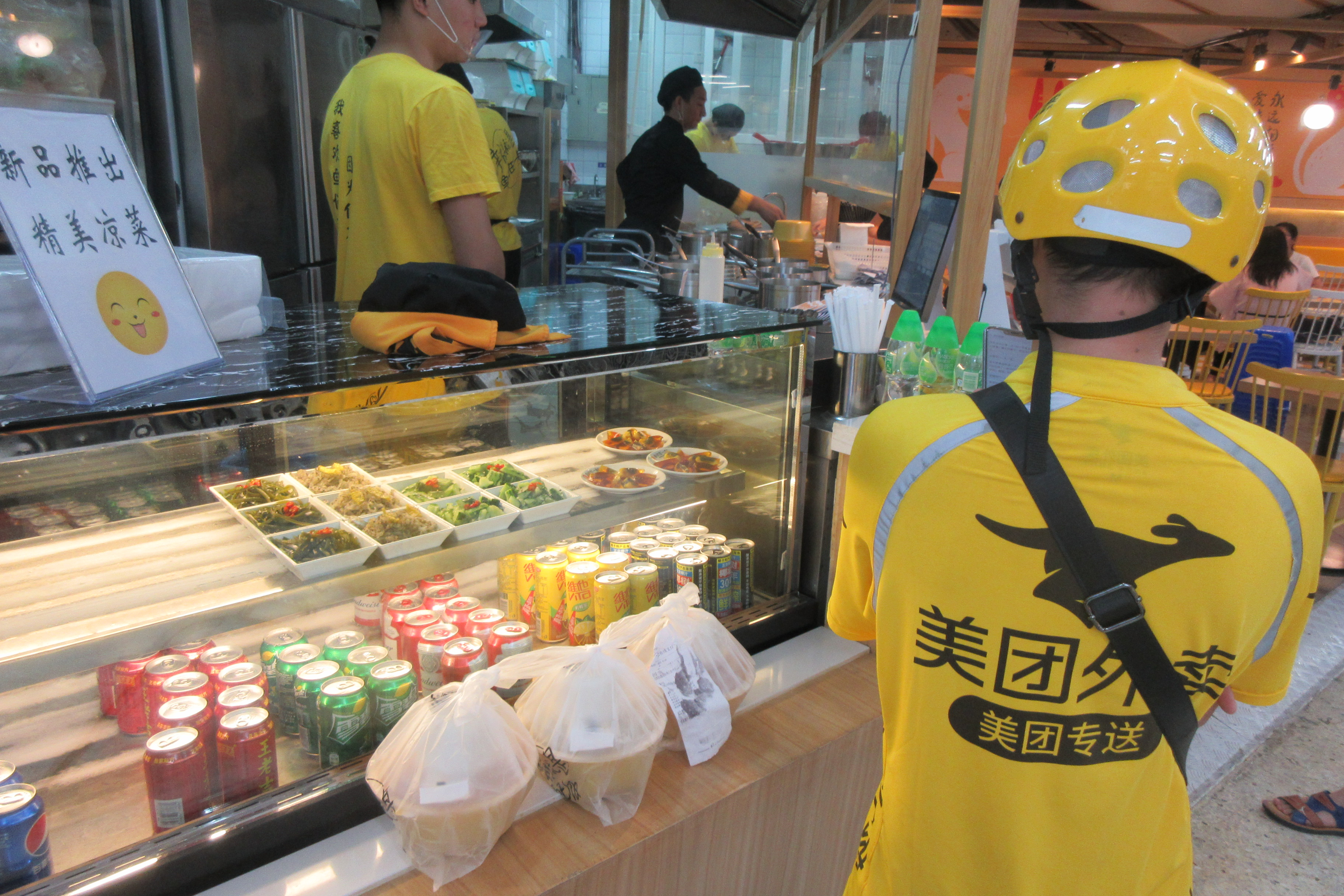 SZ 深圳 Shenzhen 蛇口 Shekou in August 2018 Meituan Dianping